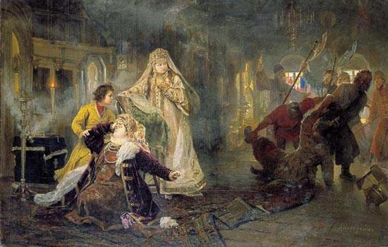 Streltsy mutiny in Moscow in 1682.